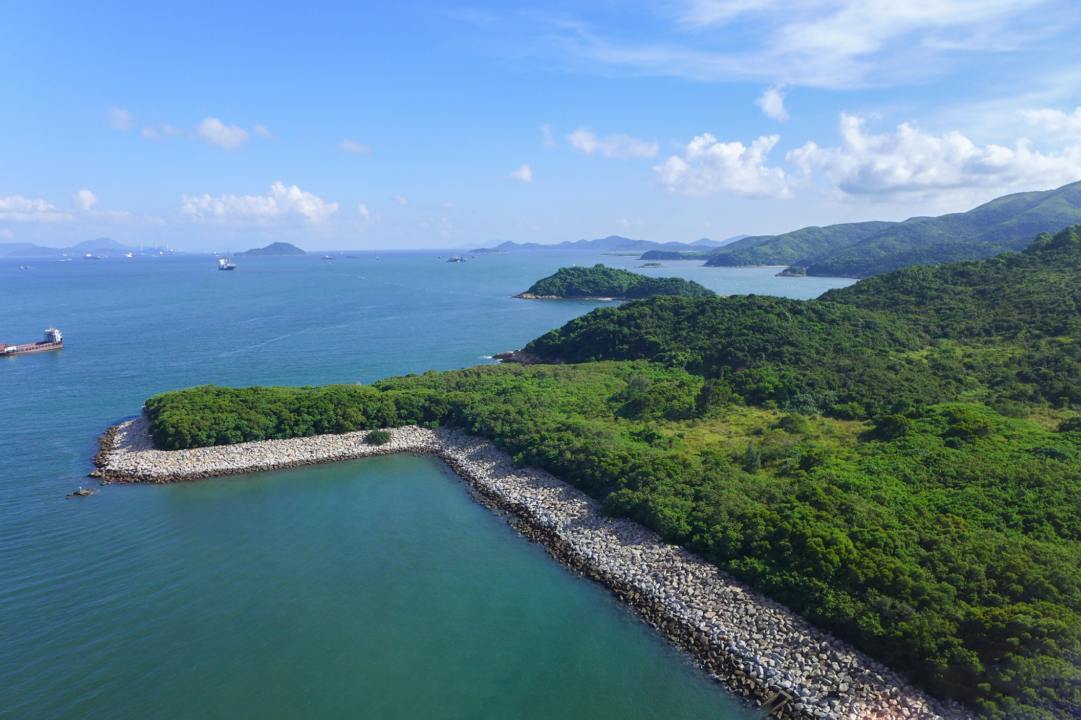 Ma Wan South Vacant land